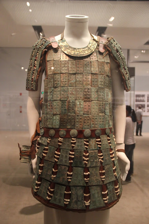 Temporary exhibit at National Museum, Beijing: Bronze Armor & Other National Treasures.